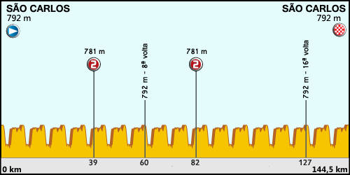 Profile of the 3rd stage of the 2013 Desafio das Américas de Ciclismo